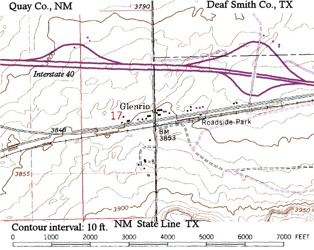 Topographic map of Glenrio, (New Mexico, Texas) showing about a mile N-S and 1.5 miles E-W, including Interstate 40. The state and county designations have been added to the USGS base, as well as labeling Interstate 40.